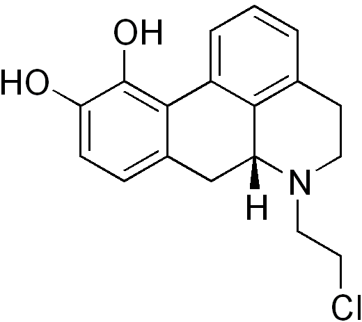 chemical structure of chloroethylnorapomorphine